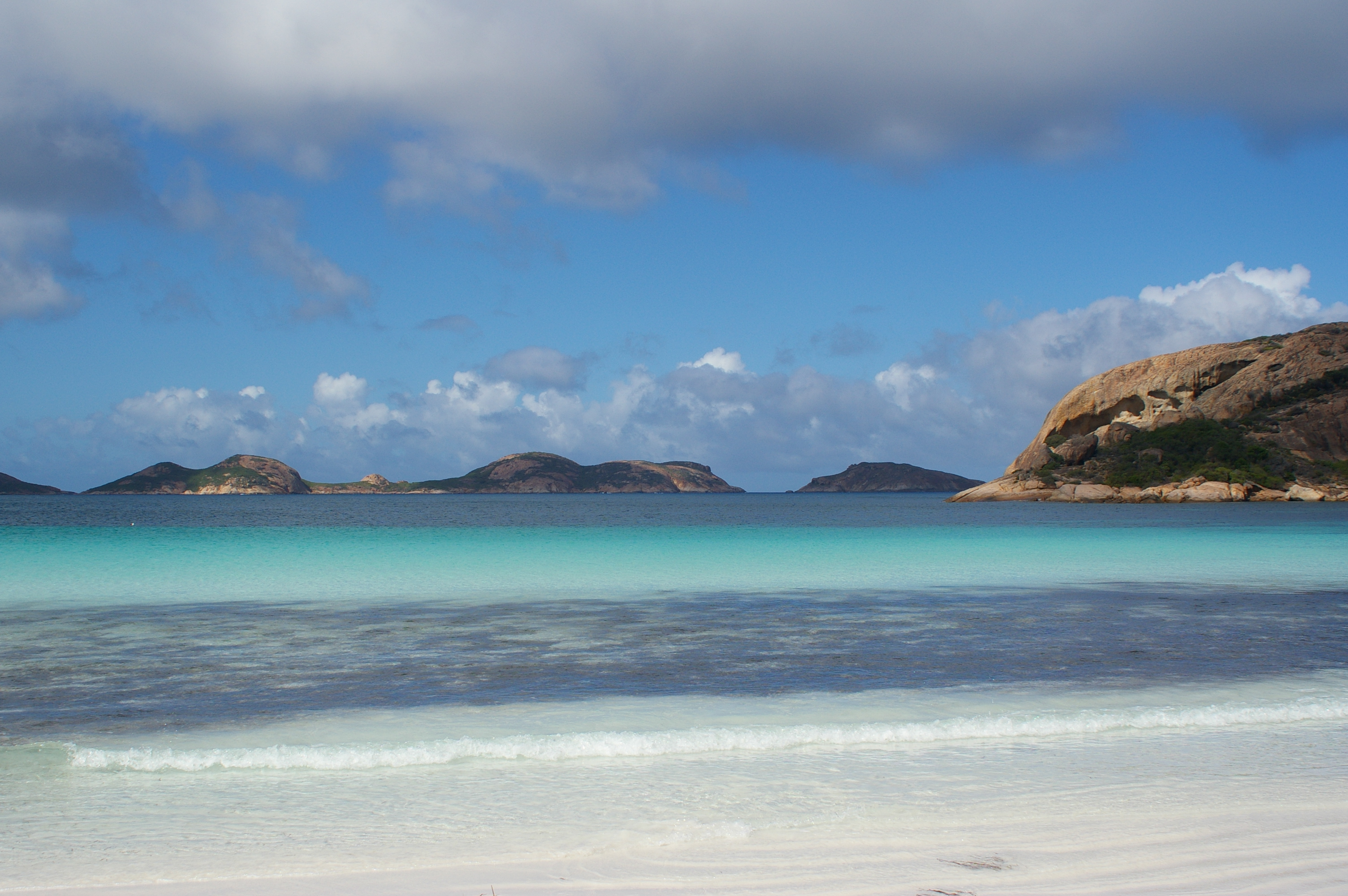 Photo of some of the islands in the Recherche Archipeligo from Lucky Bay, Cape Le Grande National Park